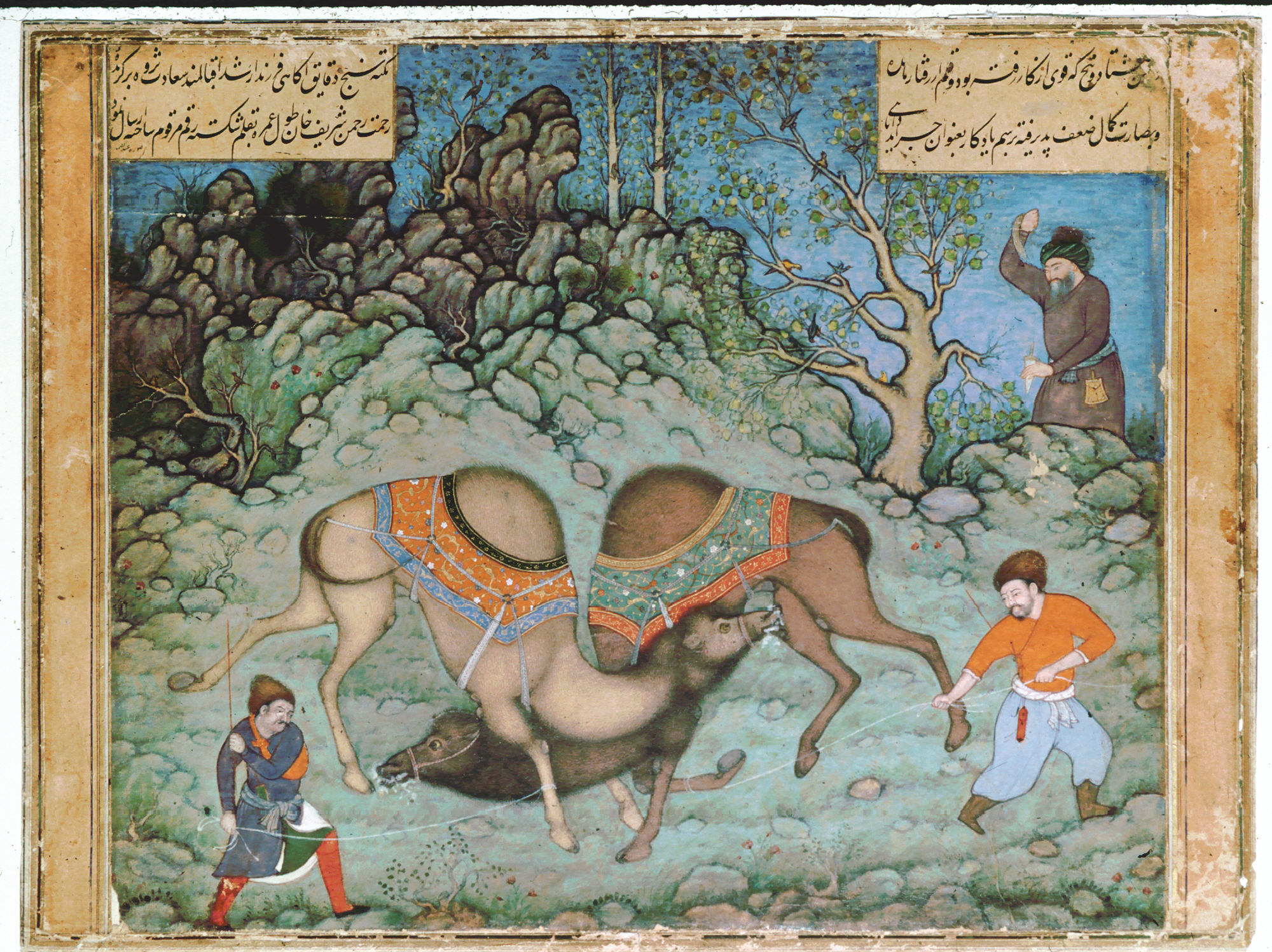 Abd al Samad. Two Fighting Camels ca. 1590. Private Collection